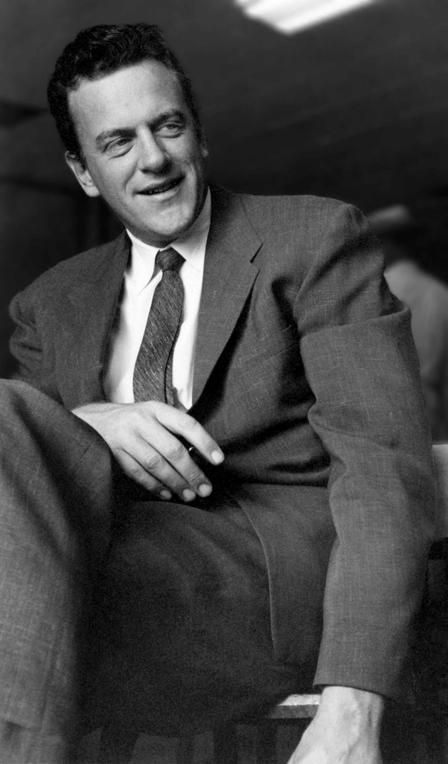 James Arness.